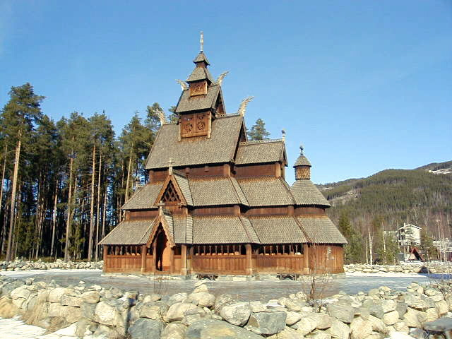 A full scale replica of the Gol Stave Church of Norway, situated at Gol Photographer: User:ToB (Tom Bjørnstad, Norway)